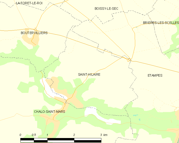 Map of French municipality Saint-Hilaire